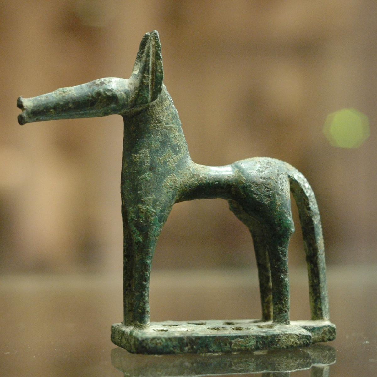 Bronze horse from Olympia, Laconian style, ca. 740 BC.